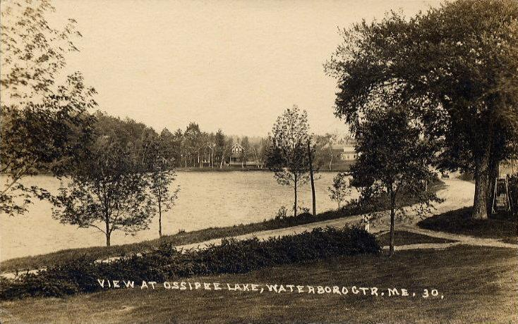 View at Little Ossipee Lake, Waterboro Center, Maine